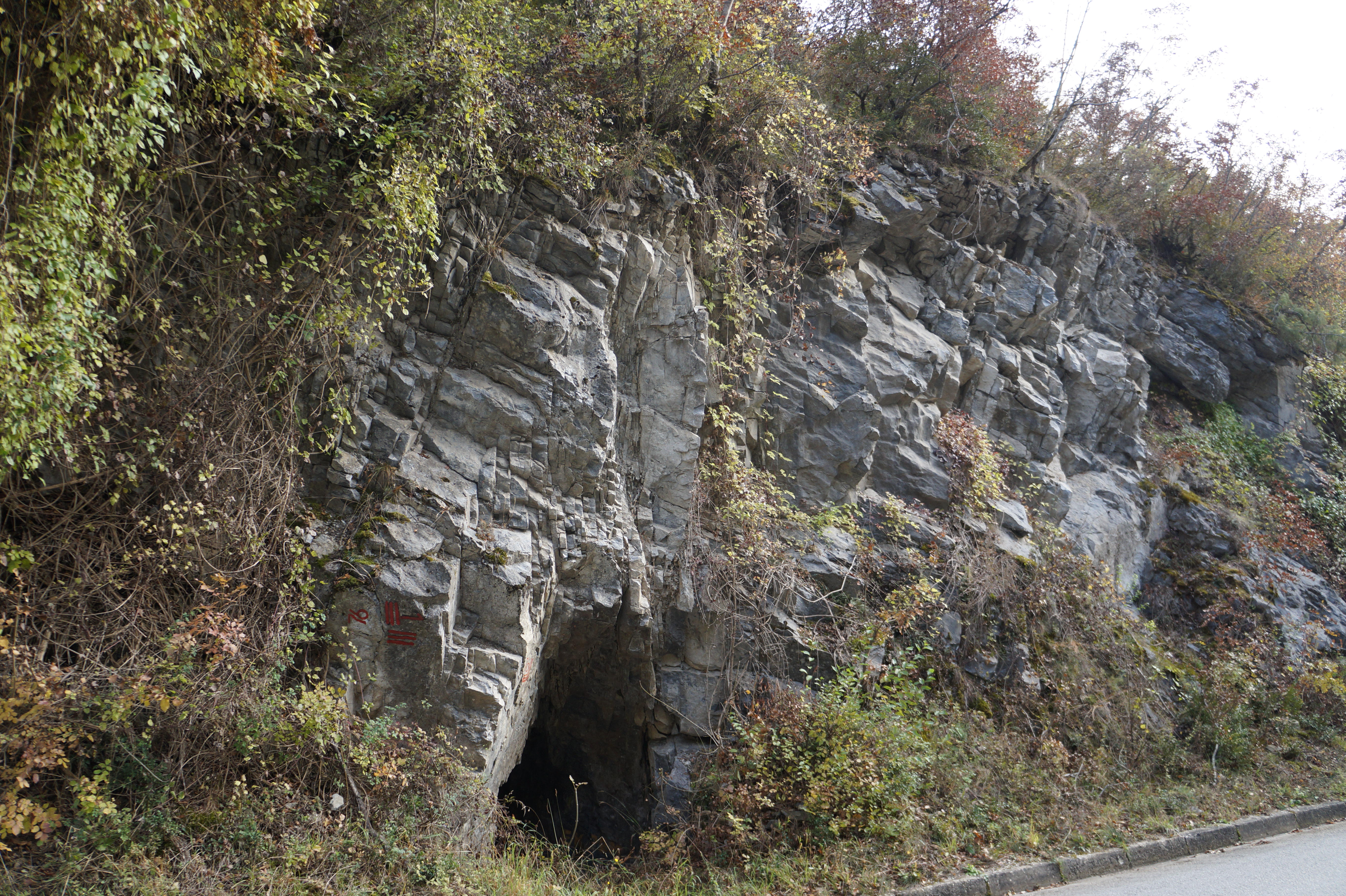 Janoa I cave in Porece region, Macedonia